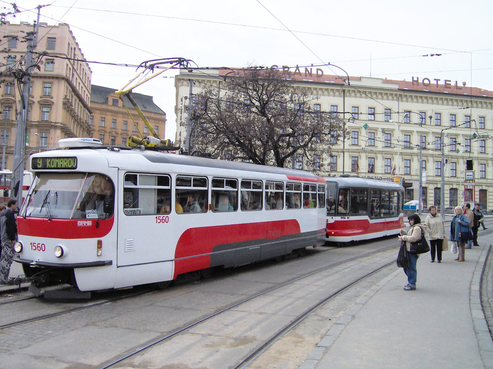 T3R.EV tram with VV60LF trailer car in Brno